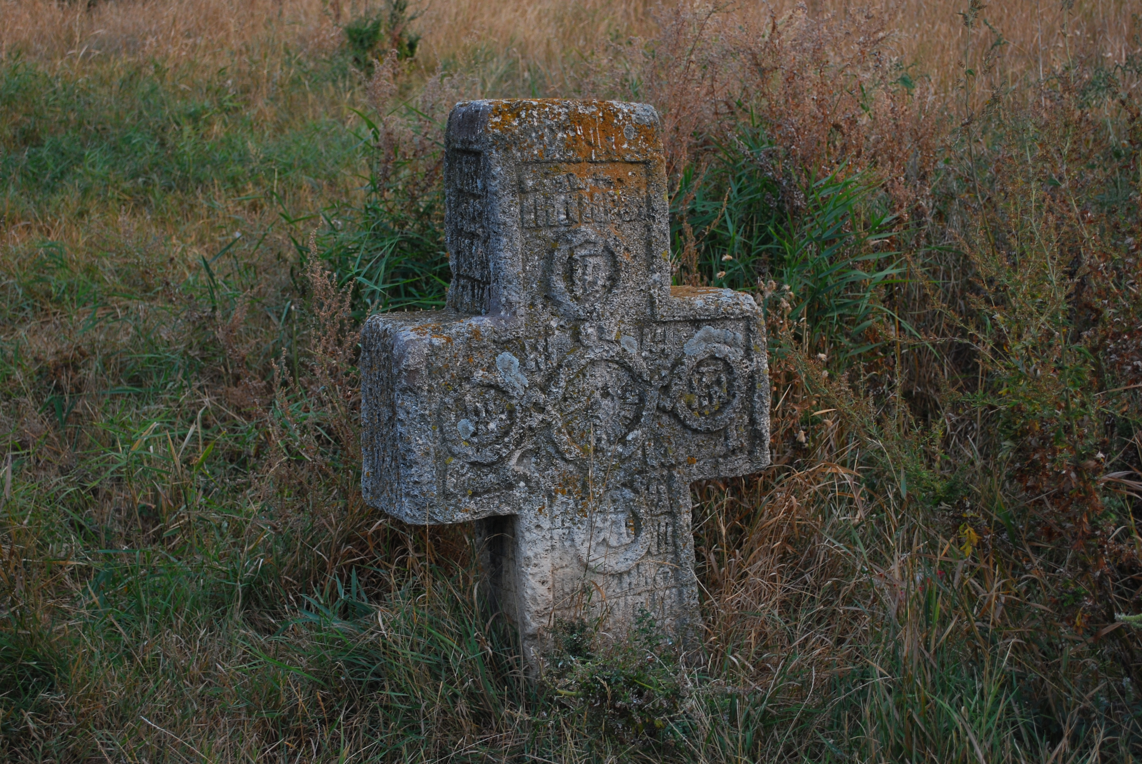 Stone cross on the Marghiloman estate, Buzău, RomaniaRomână: Crucea conacului Marghiloman din Buzău, România